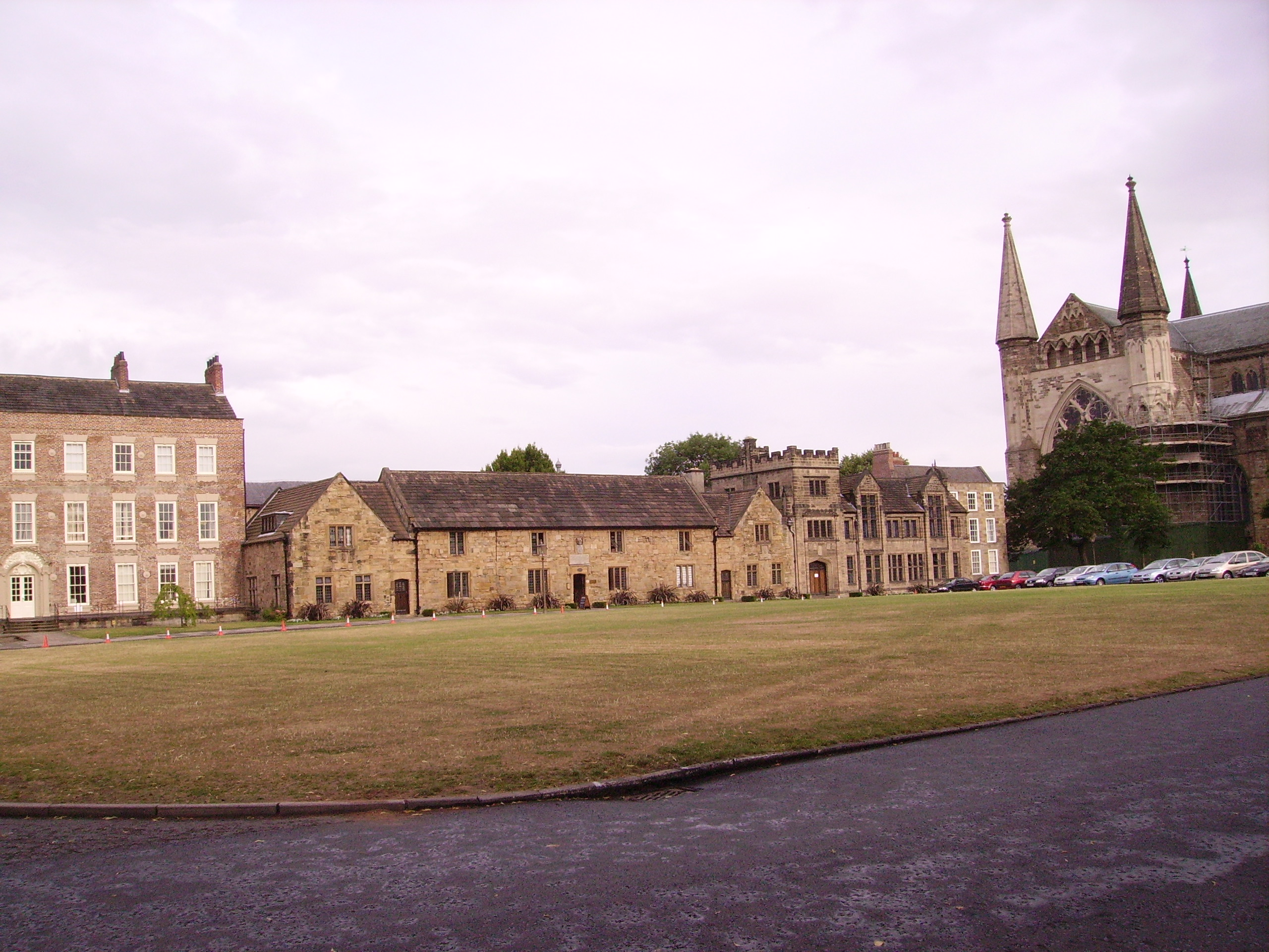 view of Durham, United Kingdom